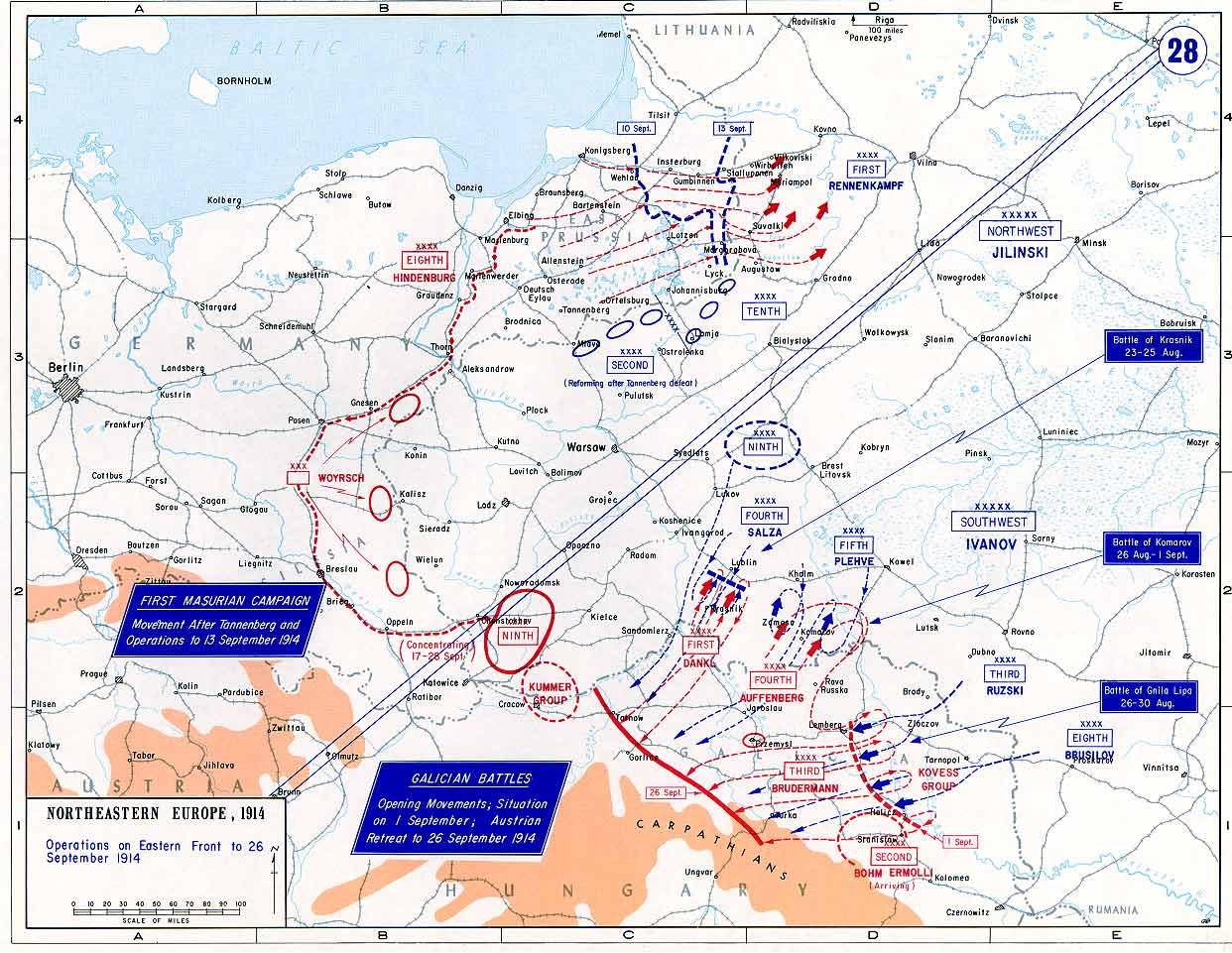 Eastern Front to September 26, 1914